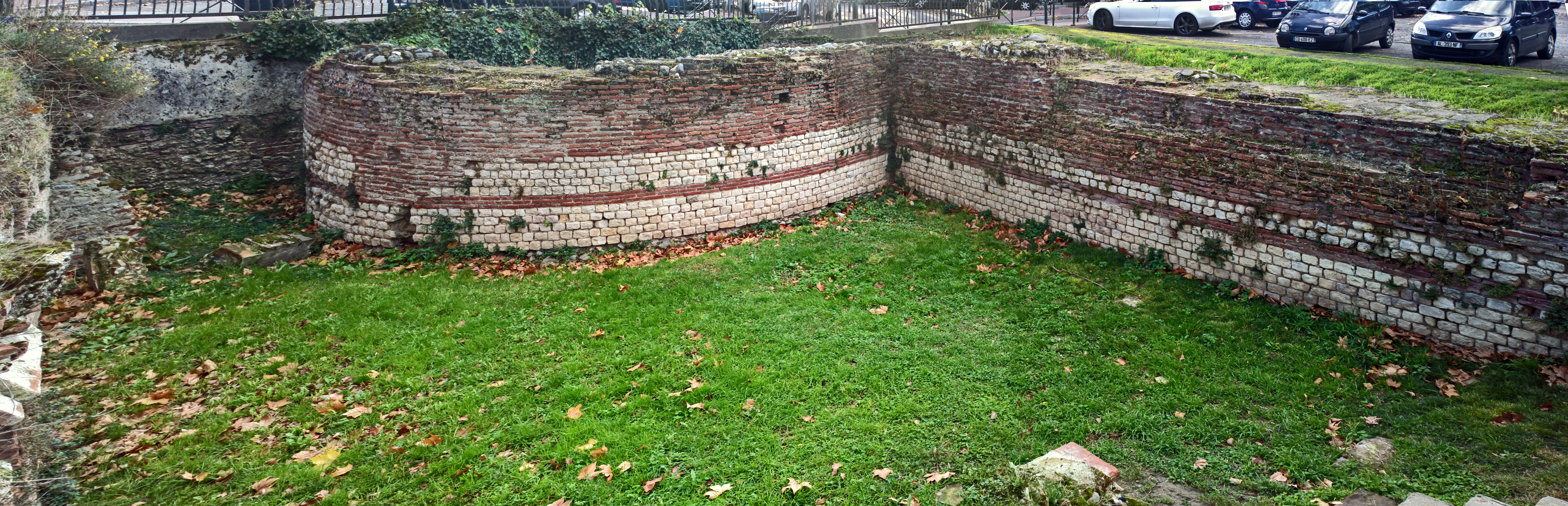 Gallo-Roman ramparts, first half of the 1st century AD. The curtain wall is lined with a limestone rubble siding with leveling courses of bricks. The foundations are pebbles Garonne (32 m long and 2.4 meters thick).